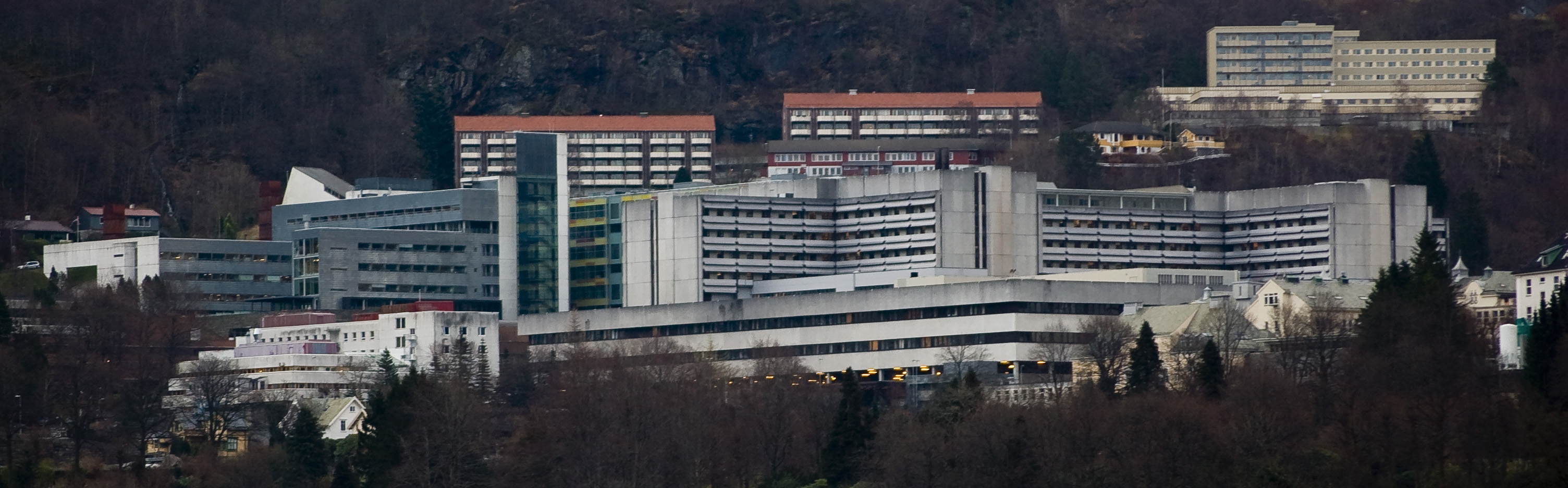 The main building of Haukeland University Hospital, the largest hospital in Bergen, Norway.